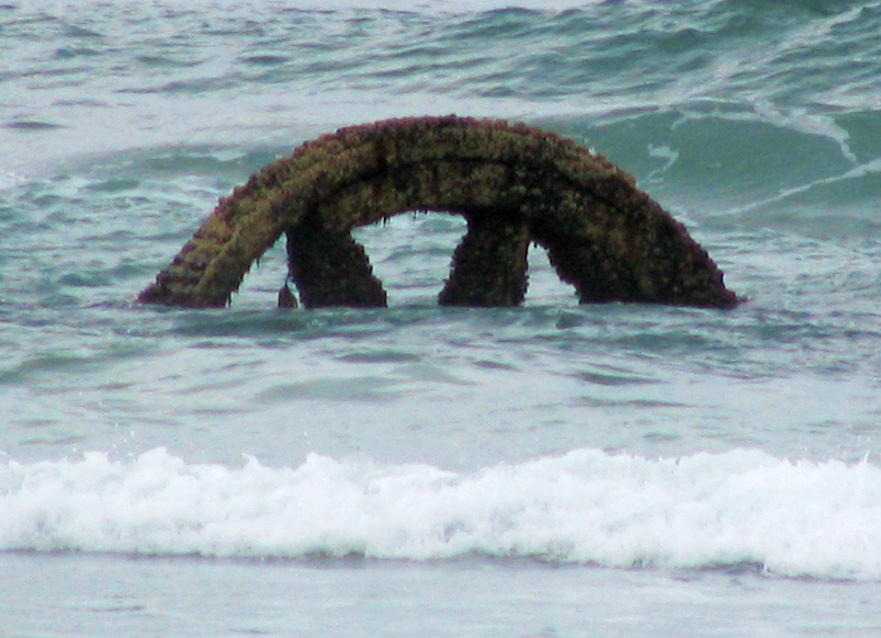 Flywheel from wreck of the SS Victory, in the surf at low tide at the southern end of Victory Beach, Otago Peninsula, New Zealand.